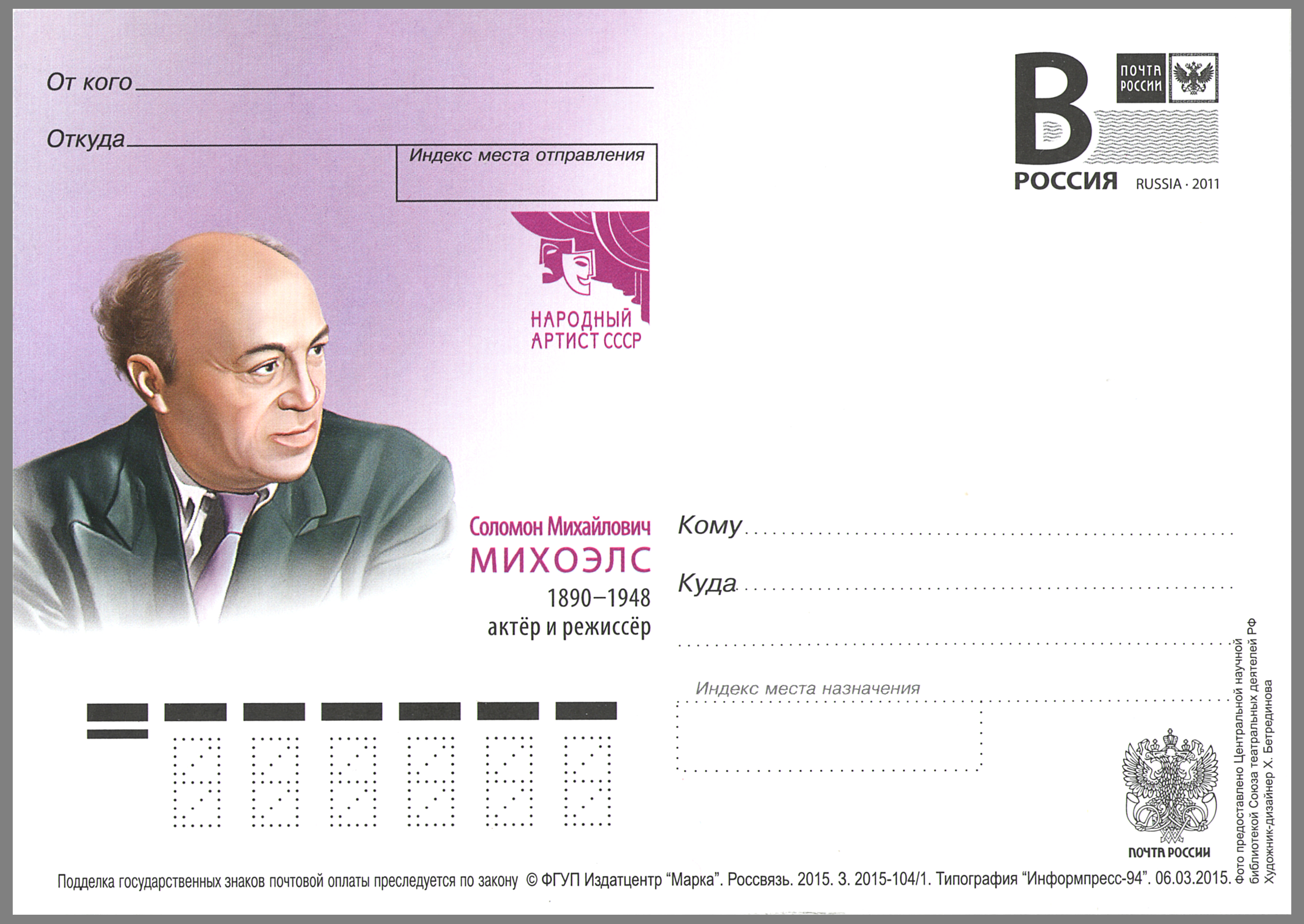 Solomon Mikhoels (1890—1948), a Soviet Jewish theater actor and stage director. The postal stationery card with the imprinted definitive non-denominated stamp “Letter B”, Russia, 20 March 2015, PTC Marka Catalogue No. 2015-104/1. Coated paper. Offset printing. Size of the postal card: 105×148 mm. Print run: 5,500 The photo portrait of Solomon Mikhoels from the archive of the Central Science Library of the Union of Theatre Workers of the Russian Federation.